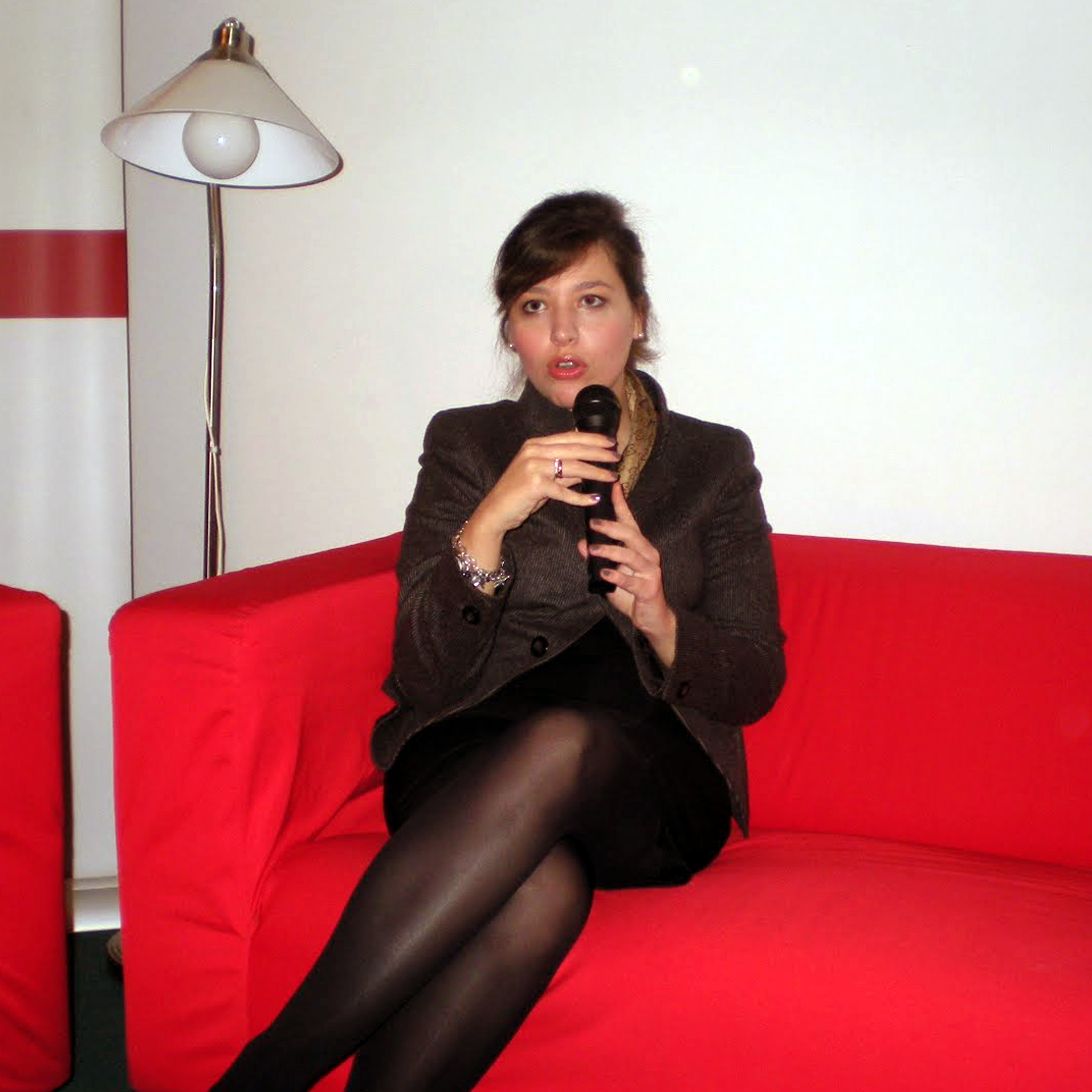 Italian writer Alessia Gazzola